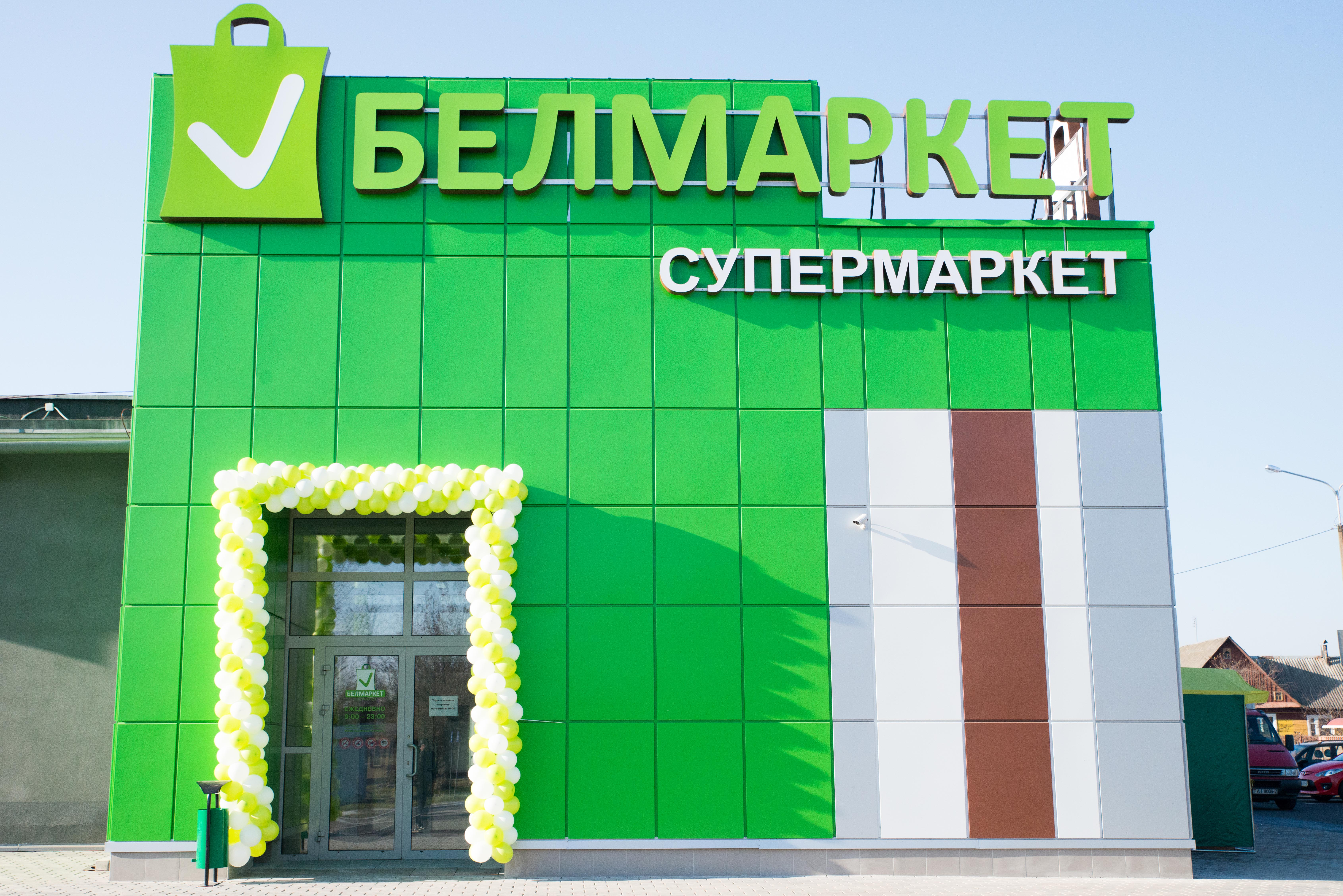 "БЕЛМАРКЕТ" в Барановичах